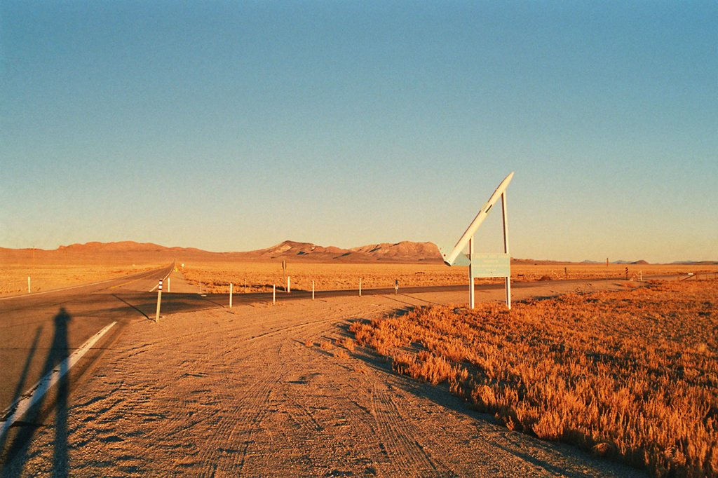 Main entrance to Tonopah Test Range at junction of US-6 and AR504/ARNY44 about 12 miles (19 km) east of Tonopah, Nye County, Nevada. The main gate of TTR is 20 miles to the southeast. The sign reads:Tonopah Test RangeOperated BySandia National LaboratoriesFor TheDepartment Of Energy